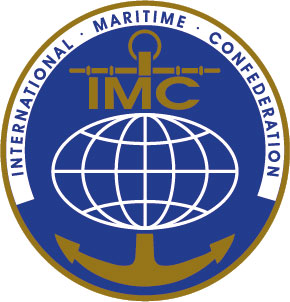 Sign, International Maritime Confederation